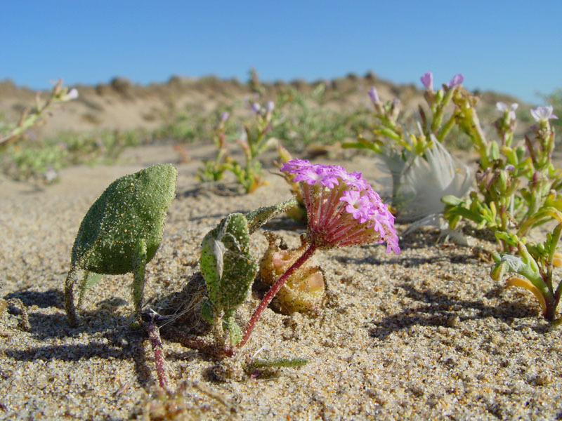 Abronia umbellata (Pink Sand-verbena) Pescadero State Beach, Northern California. Link: Pescadero State Beach website.